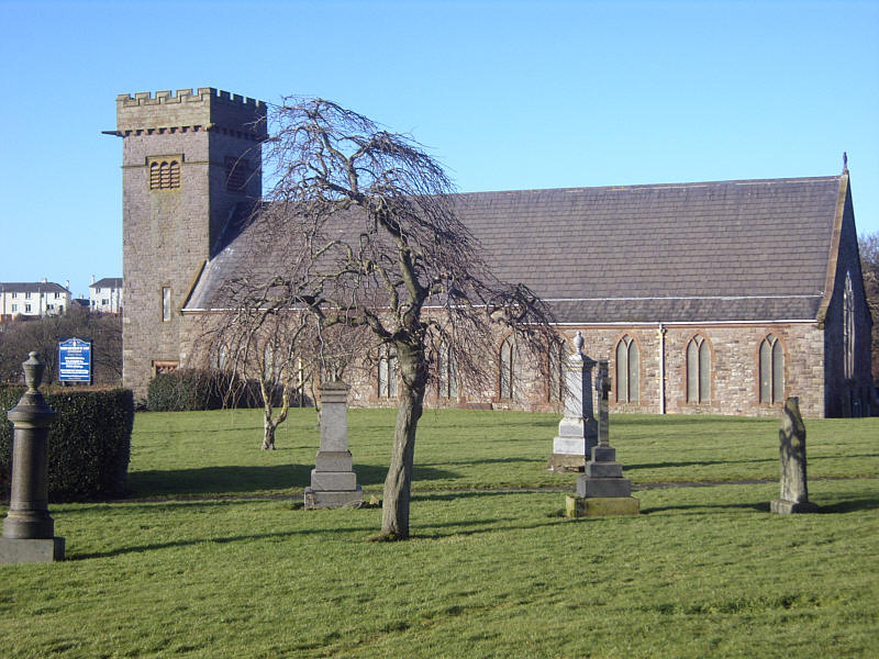 St Mary's parish church of Harrington, Cumbria.